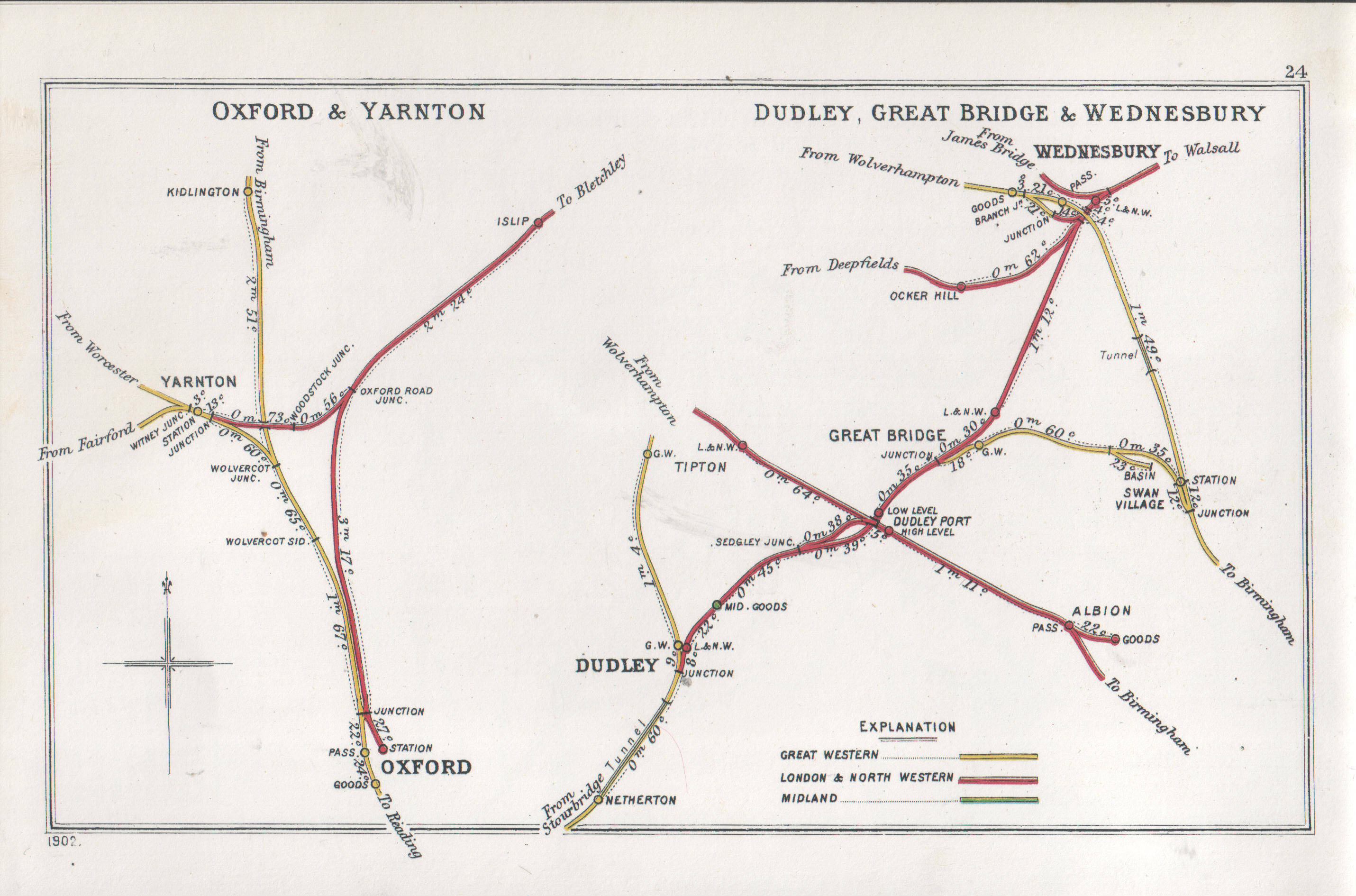 Pre Grouping railway junction around Oxford & Yarnton; Dudley, Great Bridge & Wednesbury